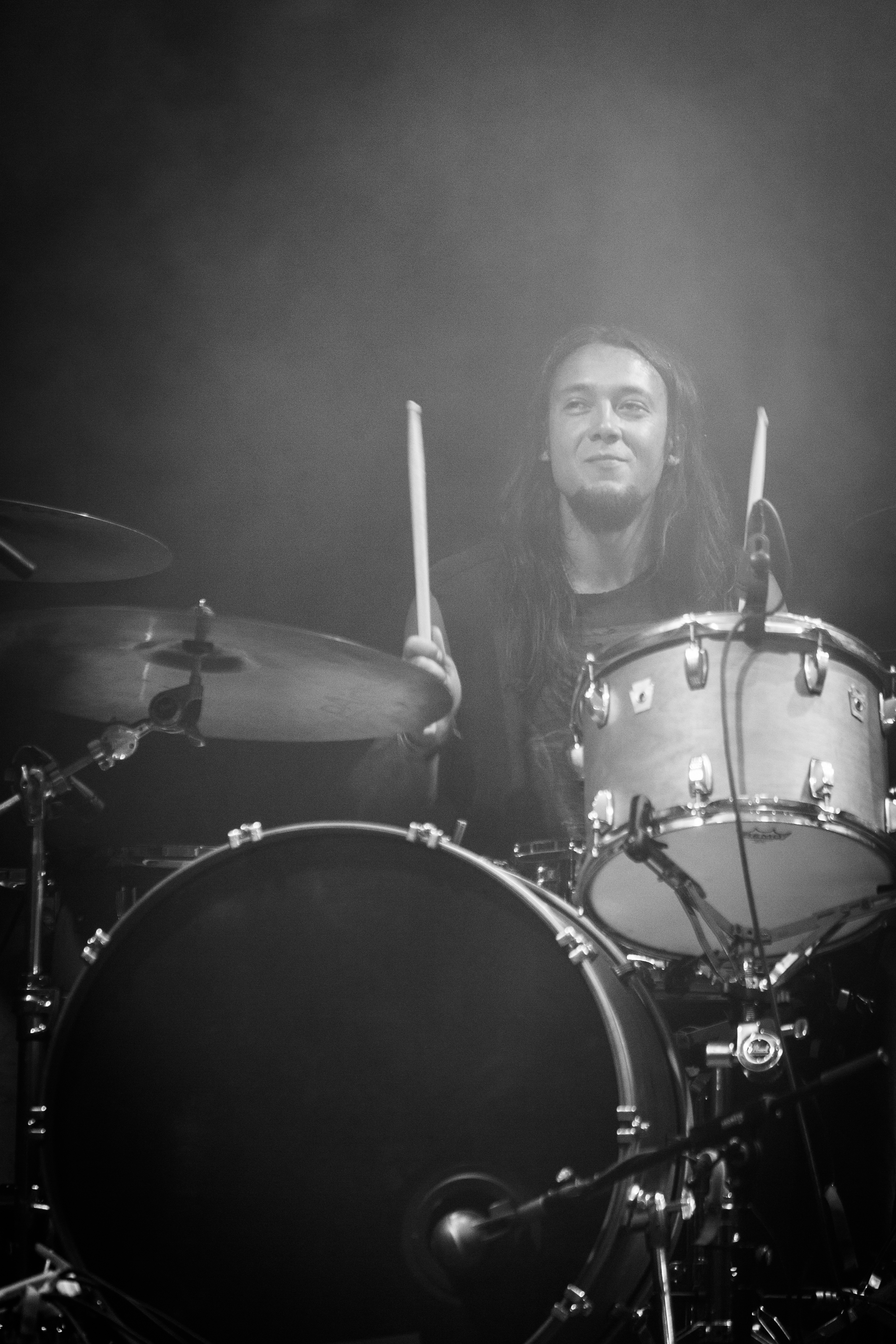 Alcest live at the Prophecy Fest 2016